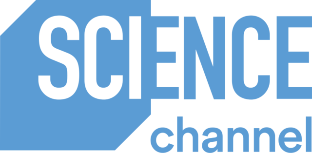 An official non-abbreviated version of the current Science Channel watermark